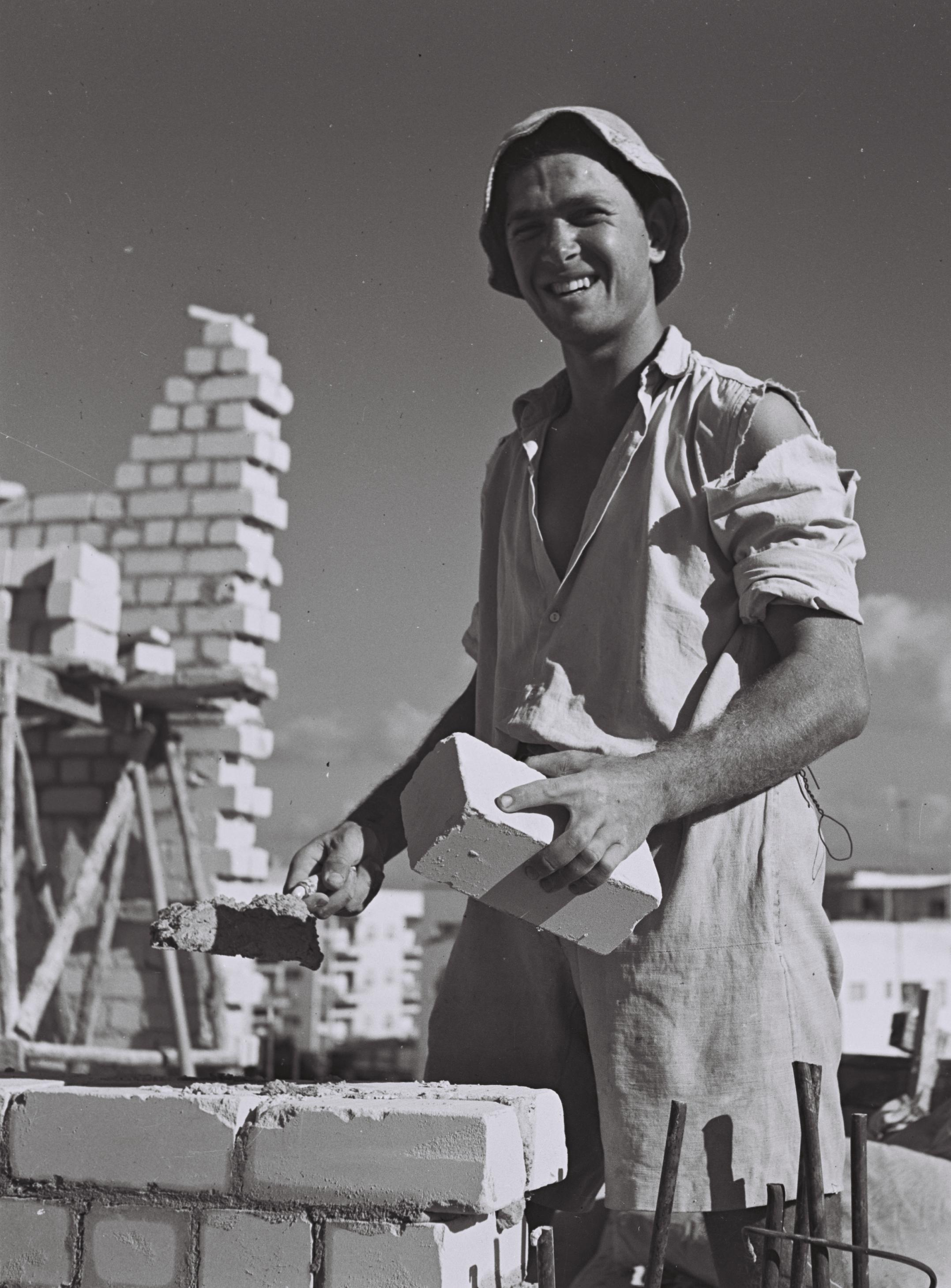 A BRICK LAYER IN TEL AVIV. פועל בניין מניח לבנים באתר בנייה בצל אביב.